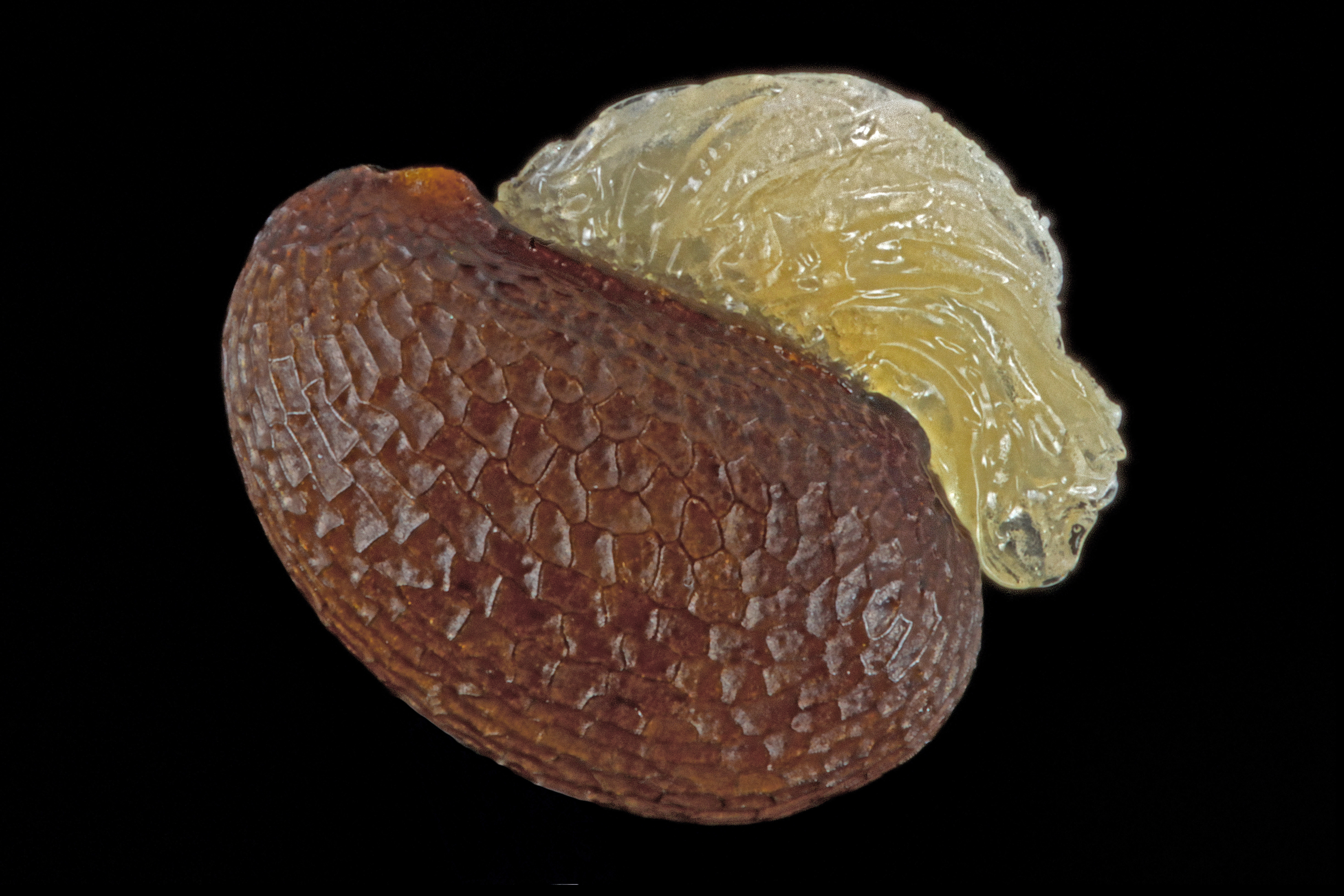 Seed of Chelidonium majus (Greater celandine; Papaveraceae) with a white or yellowish appendage called an elaiosome. This fat body attracts ants, which carry the seed to their nest. Seed dispersal by ants is known as myrmecochory.